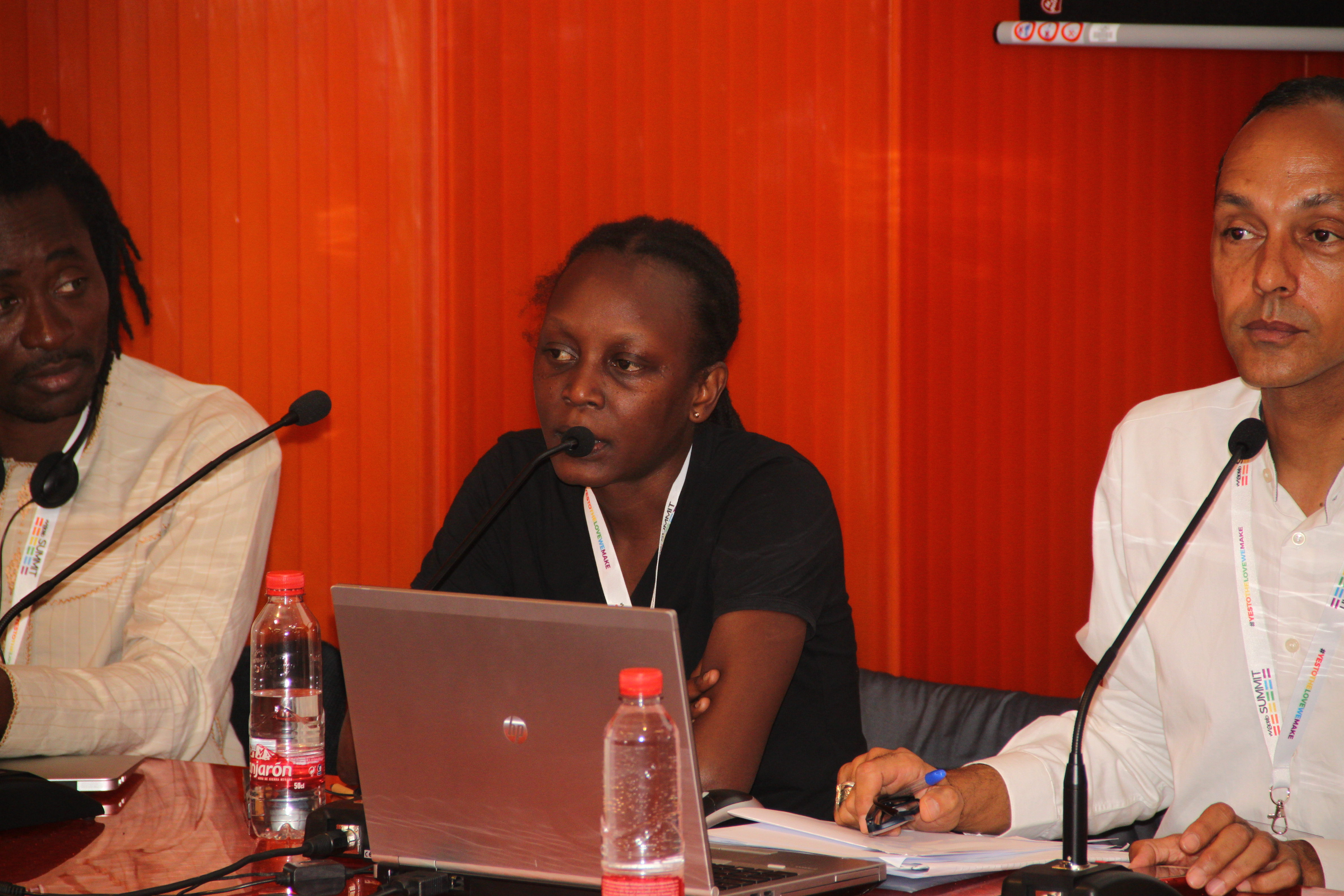 Kasha Jacequeline Nabagesera at panel about the African view on lgbt issues at World Pride Madrid